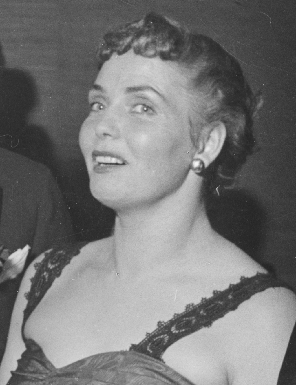 Jussi Awards 1952. From left Armi Kuusela, Tauno Palo, Mirjami Kuosmanen and Veikko Itkonen(?).